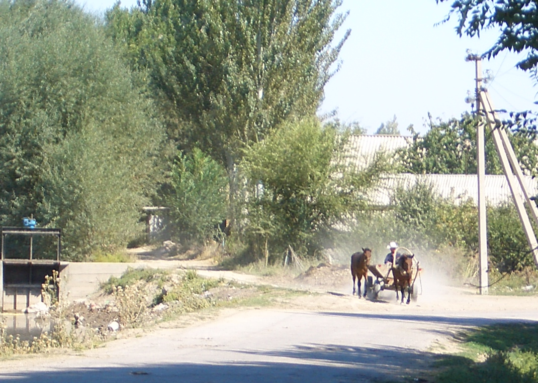 A village street in Milyanfan, a Dungan village on the Kyrgyz side of the Chuy river..